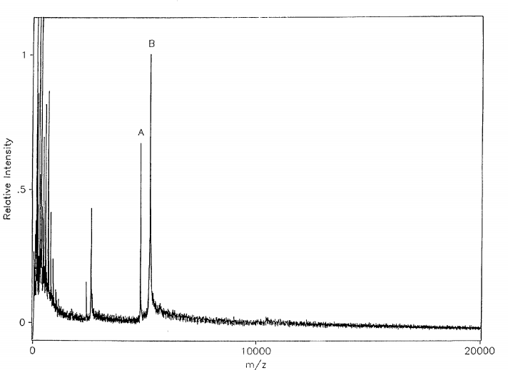 mass spectra of myotoxin